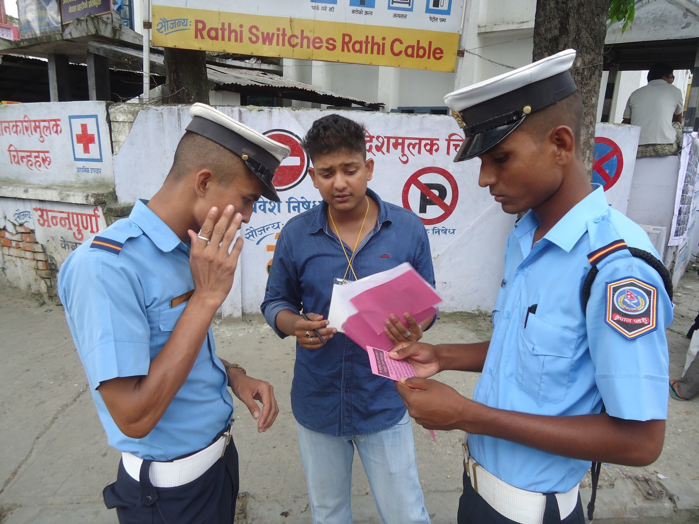 Street Awareness Campaign of Youth For Blood at Traffic Chowk Biratnagar